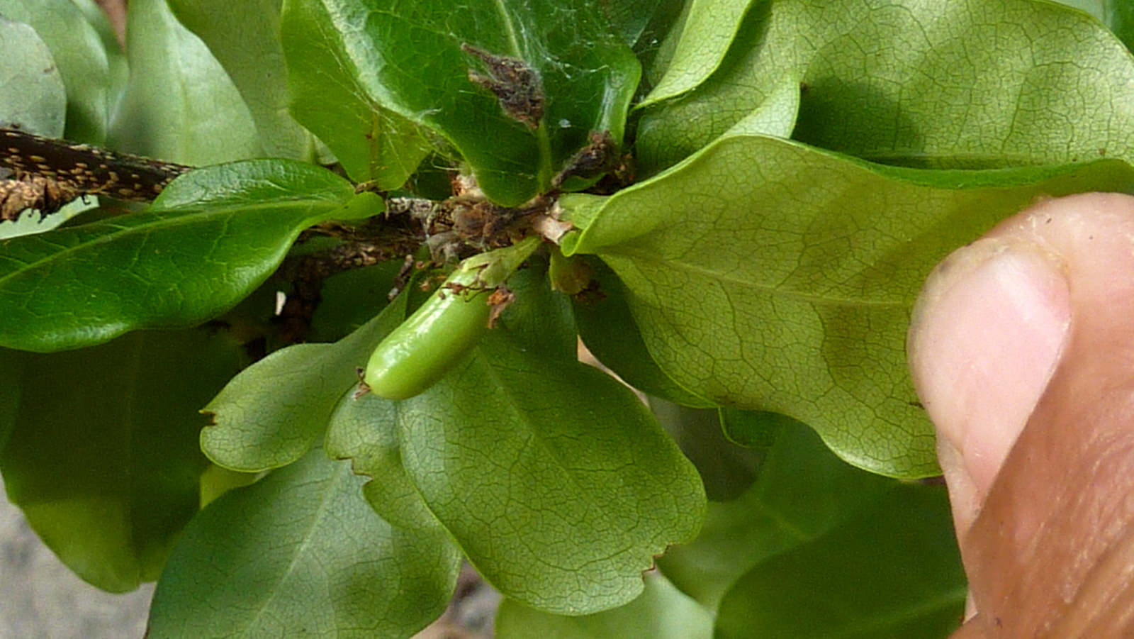 Erythroxylum vaccinifolium Mart.